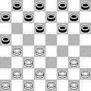 Opening "Igra Bodyanskogo"